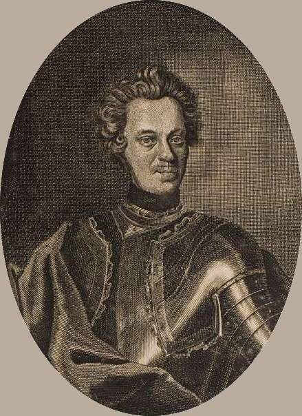 Portrait of Johann Friedrich von Flemming (1670-1733)